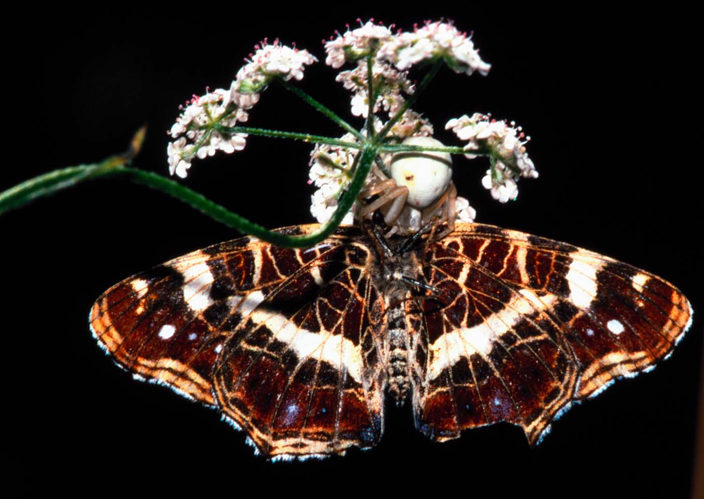 An araschnia levana caught by a Misumena vatia.